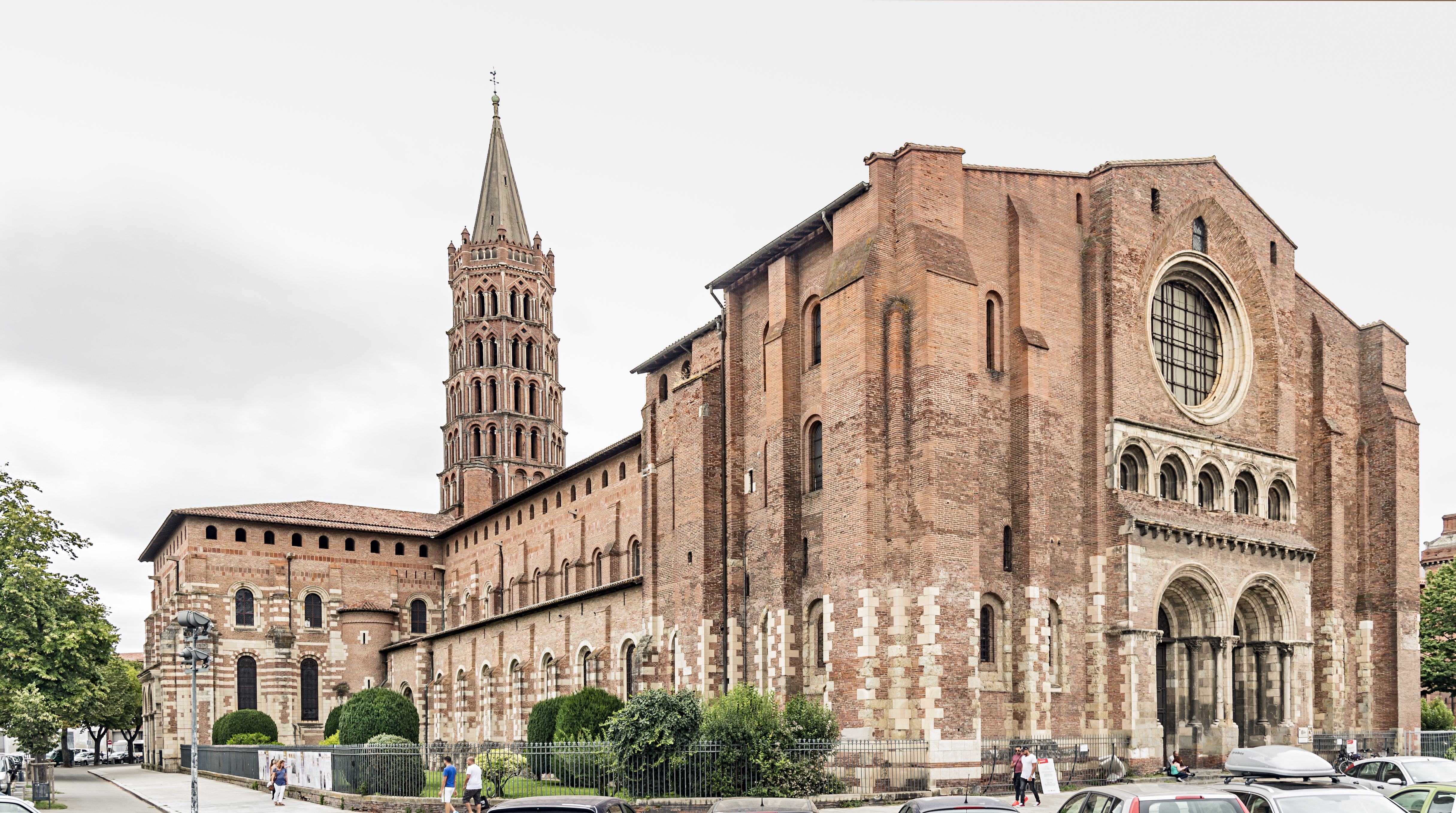 Basilica of St. Sernin, Toulouse, West exposure front of Hotel Dubarry